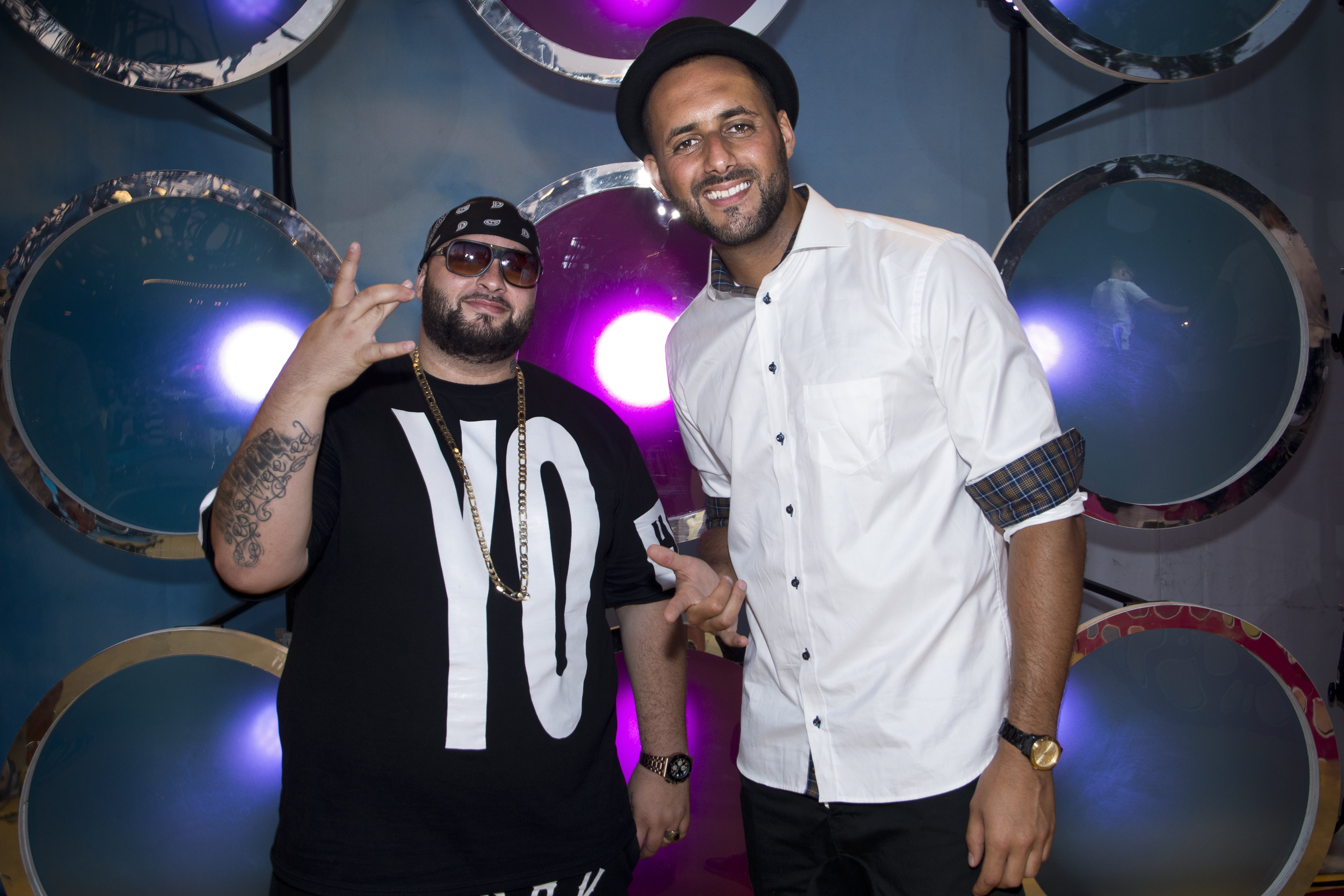 Medina at sommarkrysset 2014